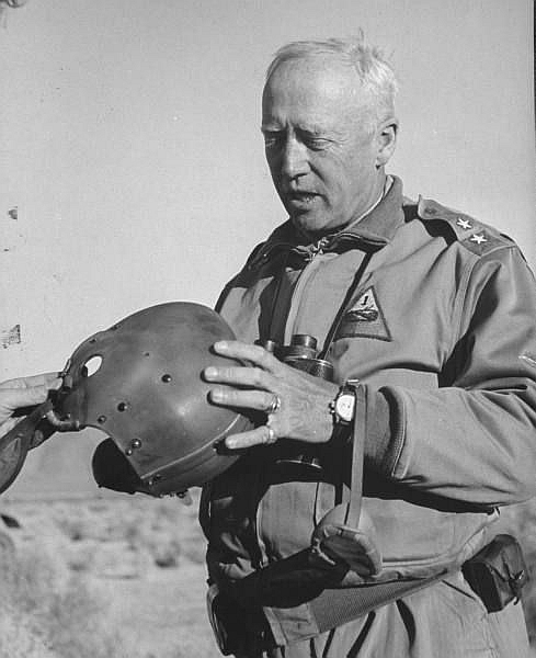 Gen. George S. Patton Jr. inspecting a tankers helmet while on training maneuvers in the desert in California